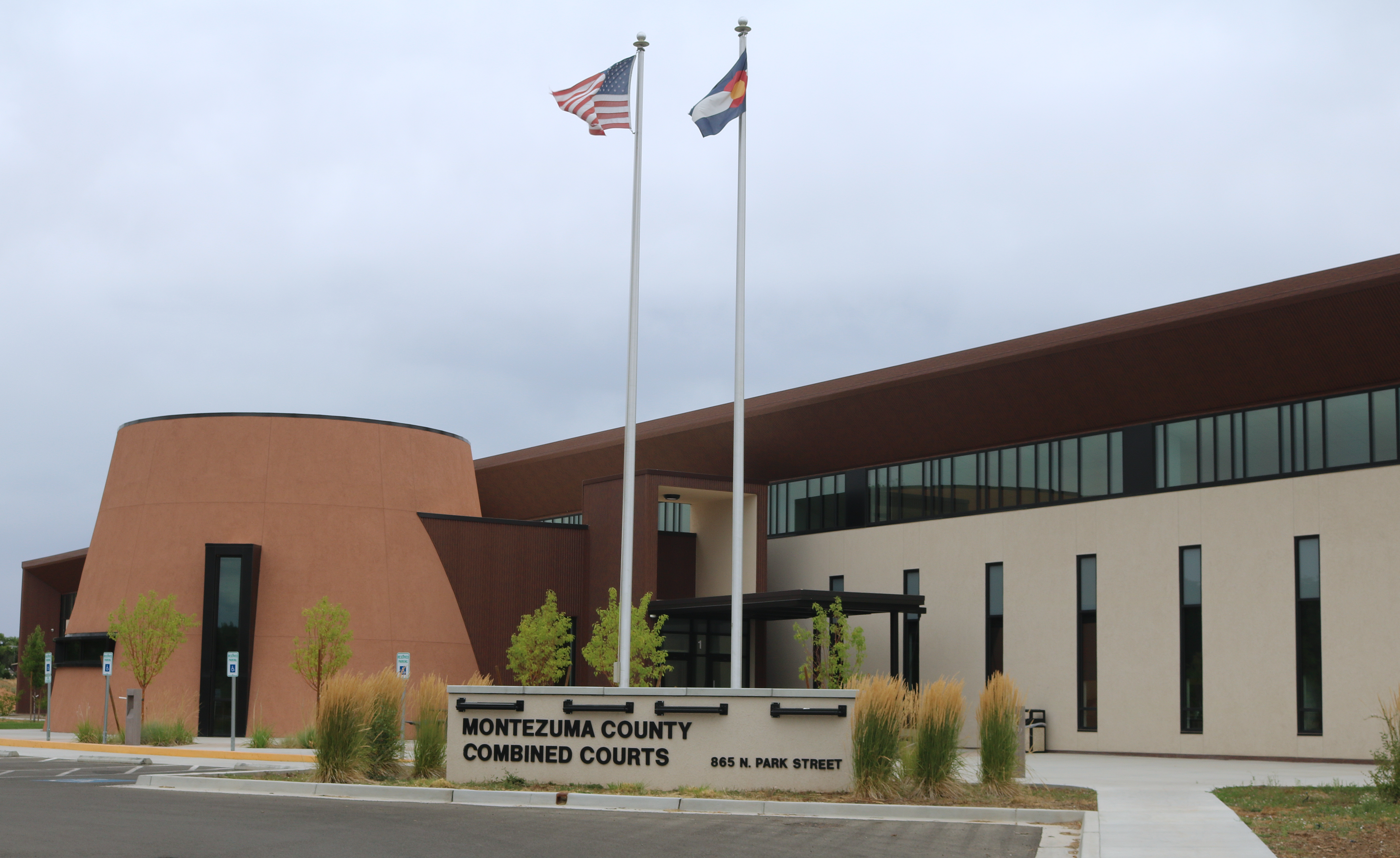 The Montezuma County Combined Courts building, located at 865 North Park Street in Cortez, Colorado.